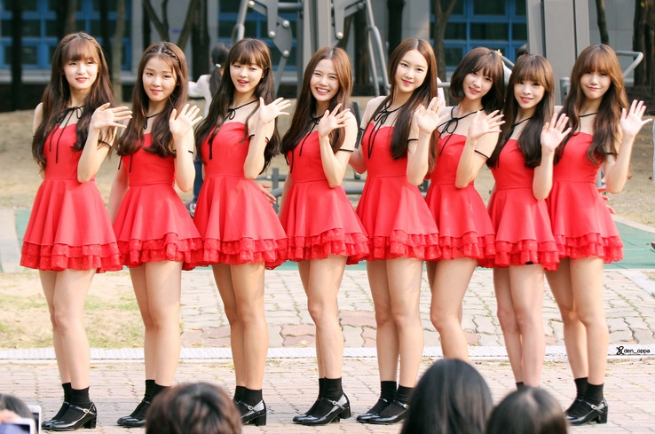 Oh My Girl at an Inkigayo fanmeeting